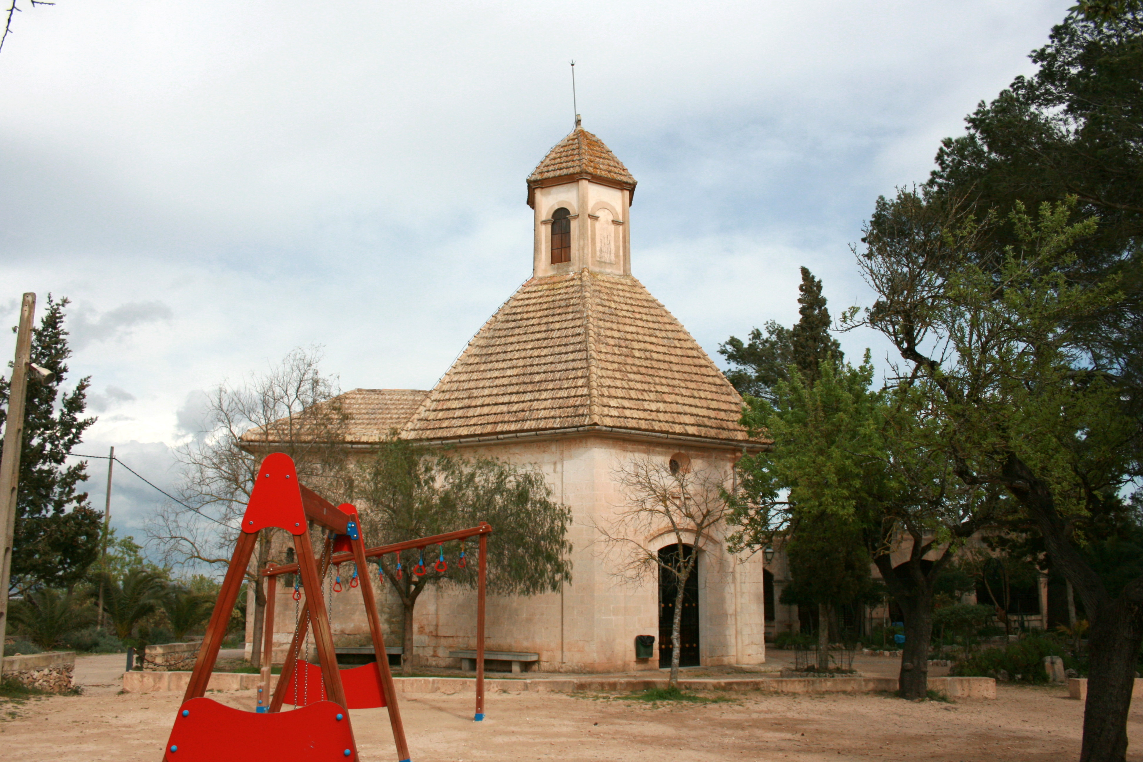 Ermita del Sant Crist in Llubí, Mallorca